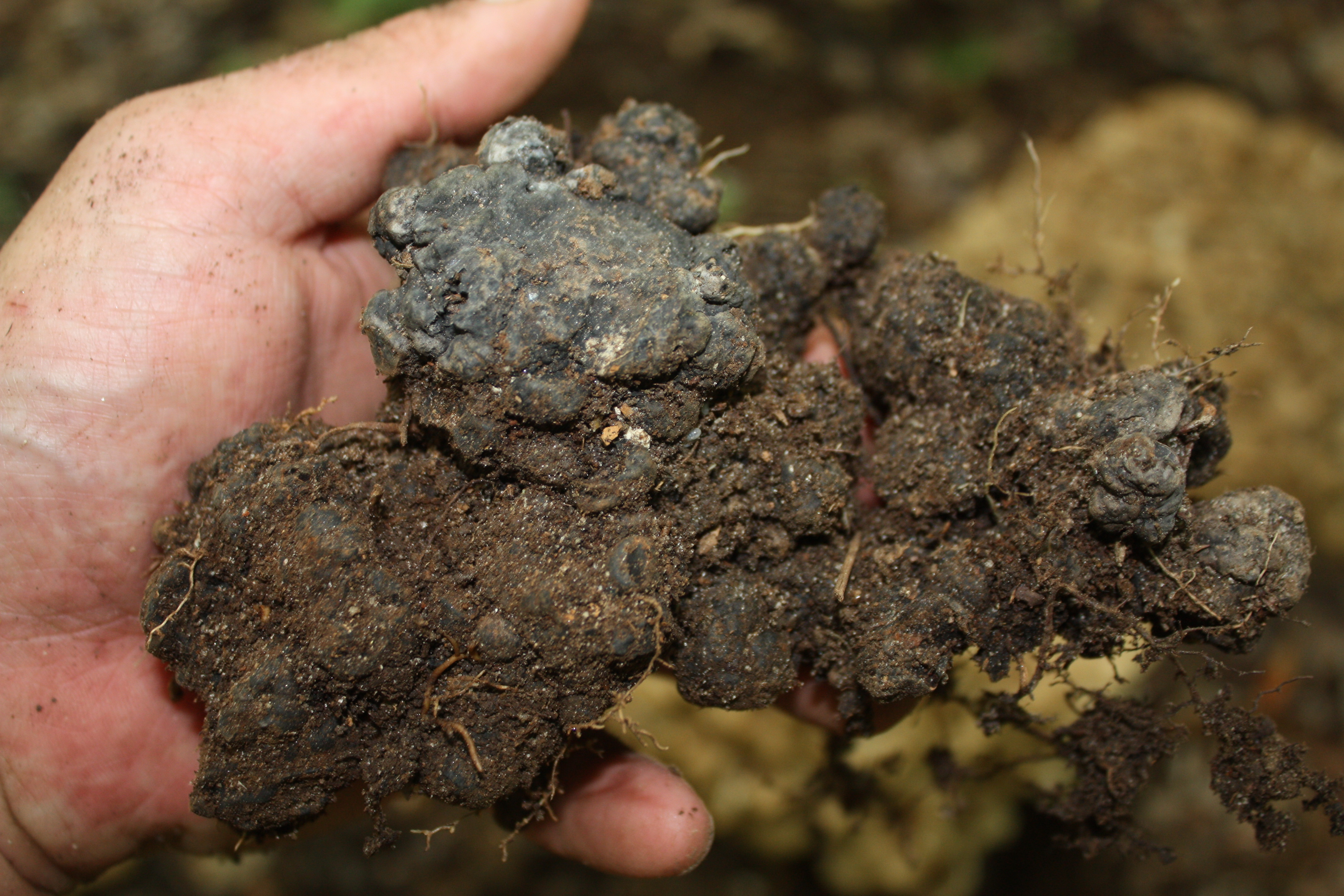 Polyporus umbellatus Pers. ex Fr.